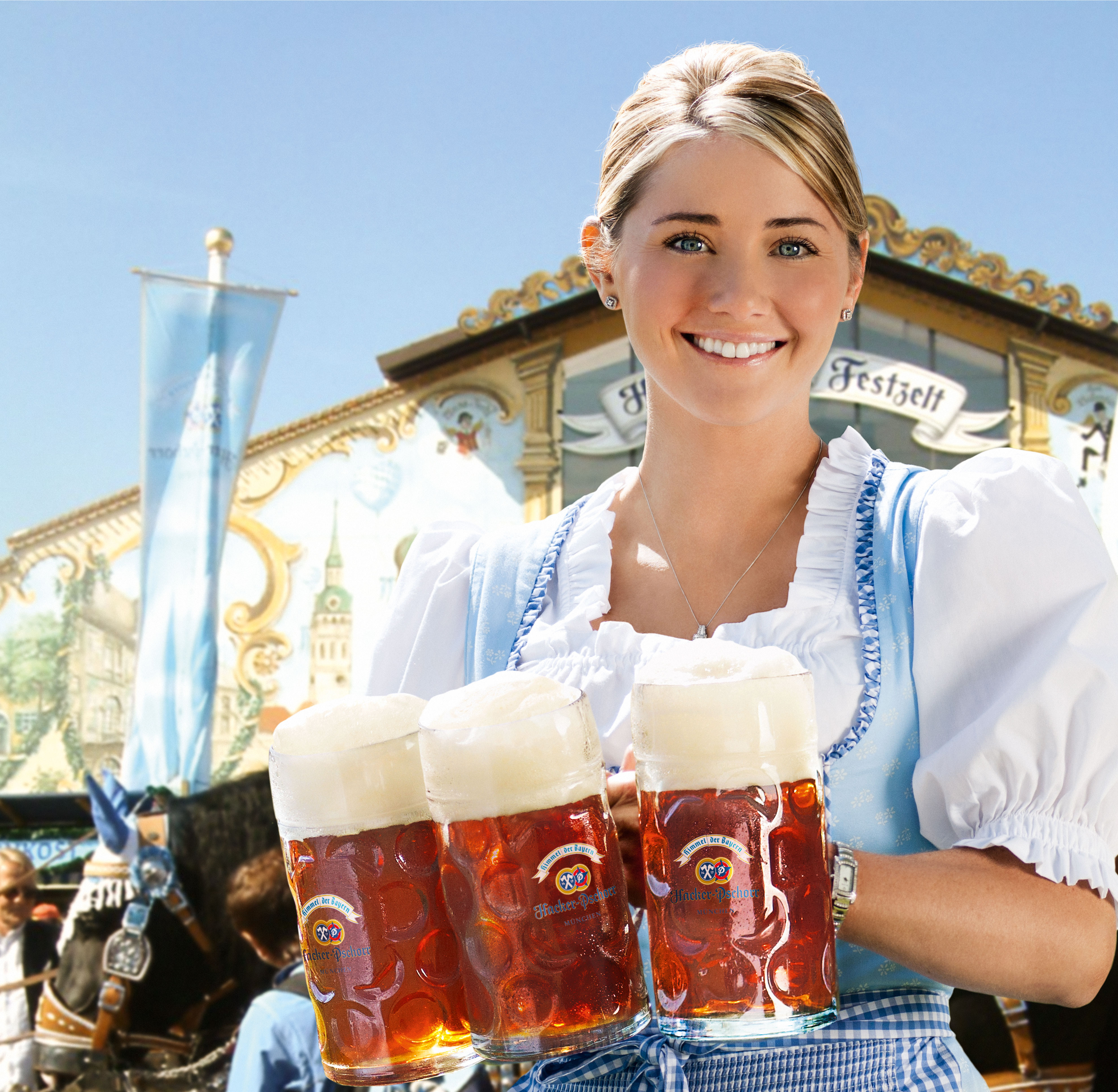 Hacker-Pschorr Oktoberfest Girl in front of Hacker-Pschorr Oktoberfest tent.